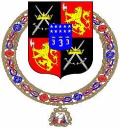 Blasone del barone di Rehbinder